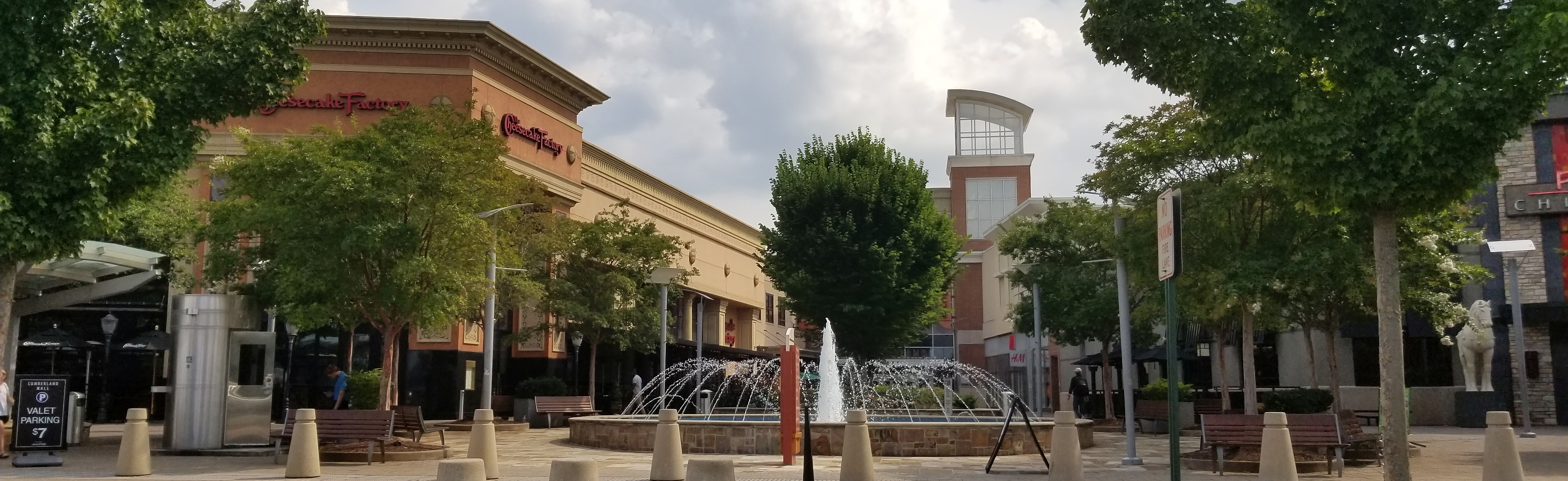 Cumberland Mall, Atlanta, Georgia.